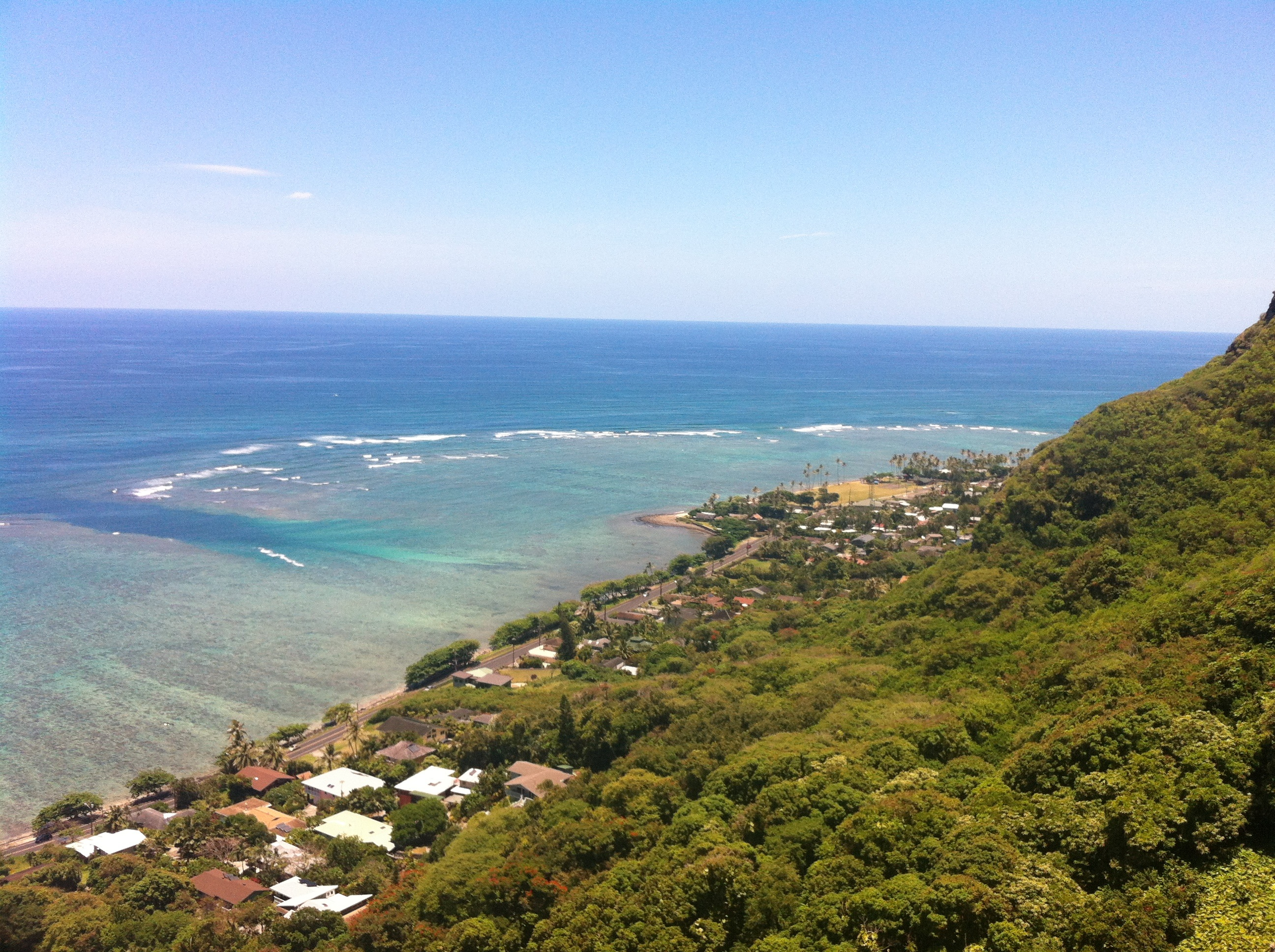 View of Kaaawa from Crouching Lion ridge